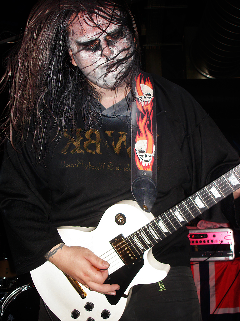 Tchort, guitarrist of Carpathian Forest live at Ludwigsburg, Germany